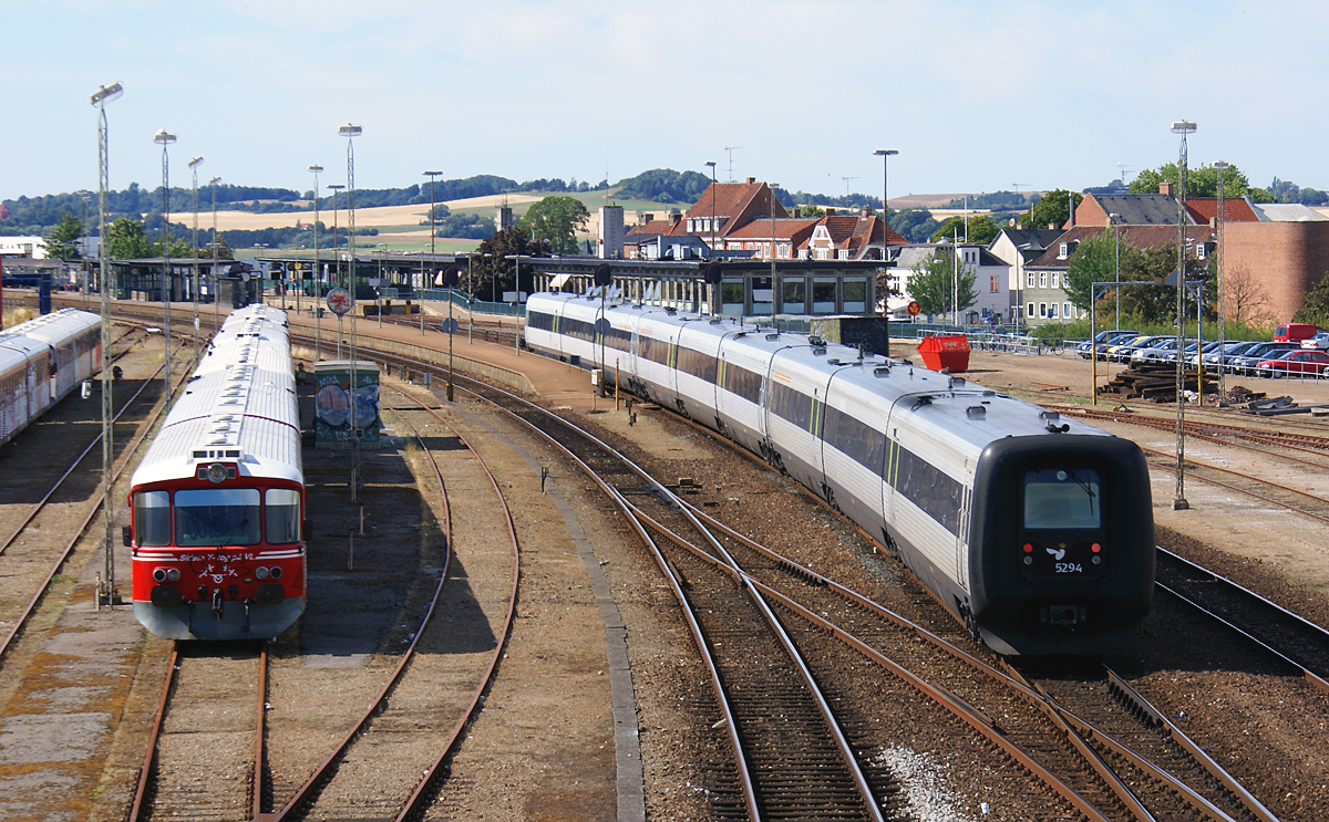 Train Station in Holbæk, Denmark